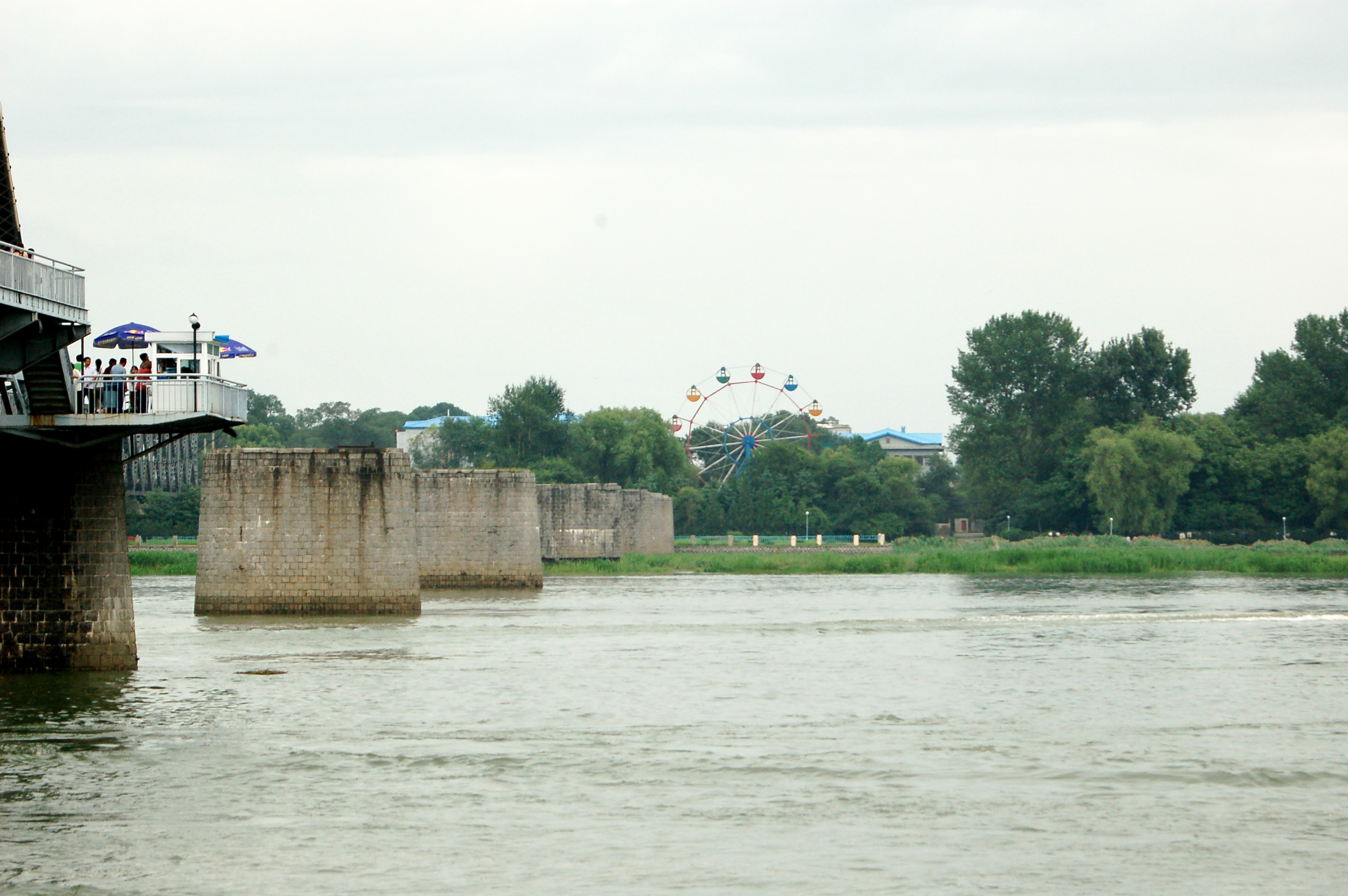 Dandong Short Bridge